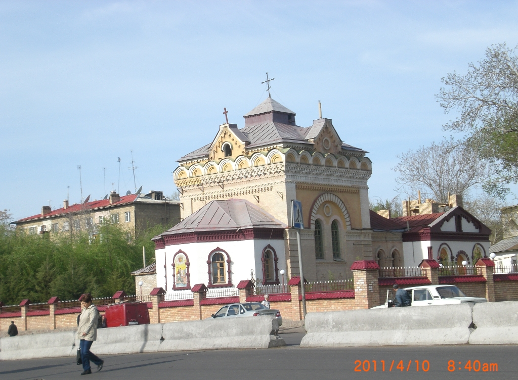 Chirchik City